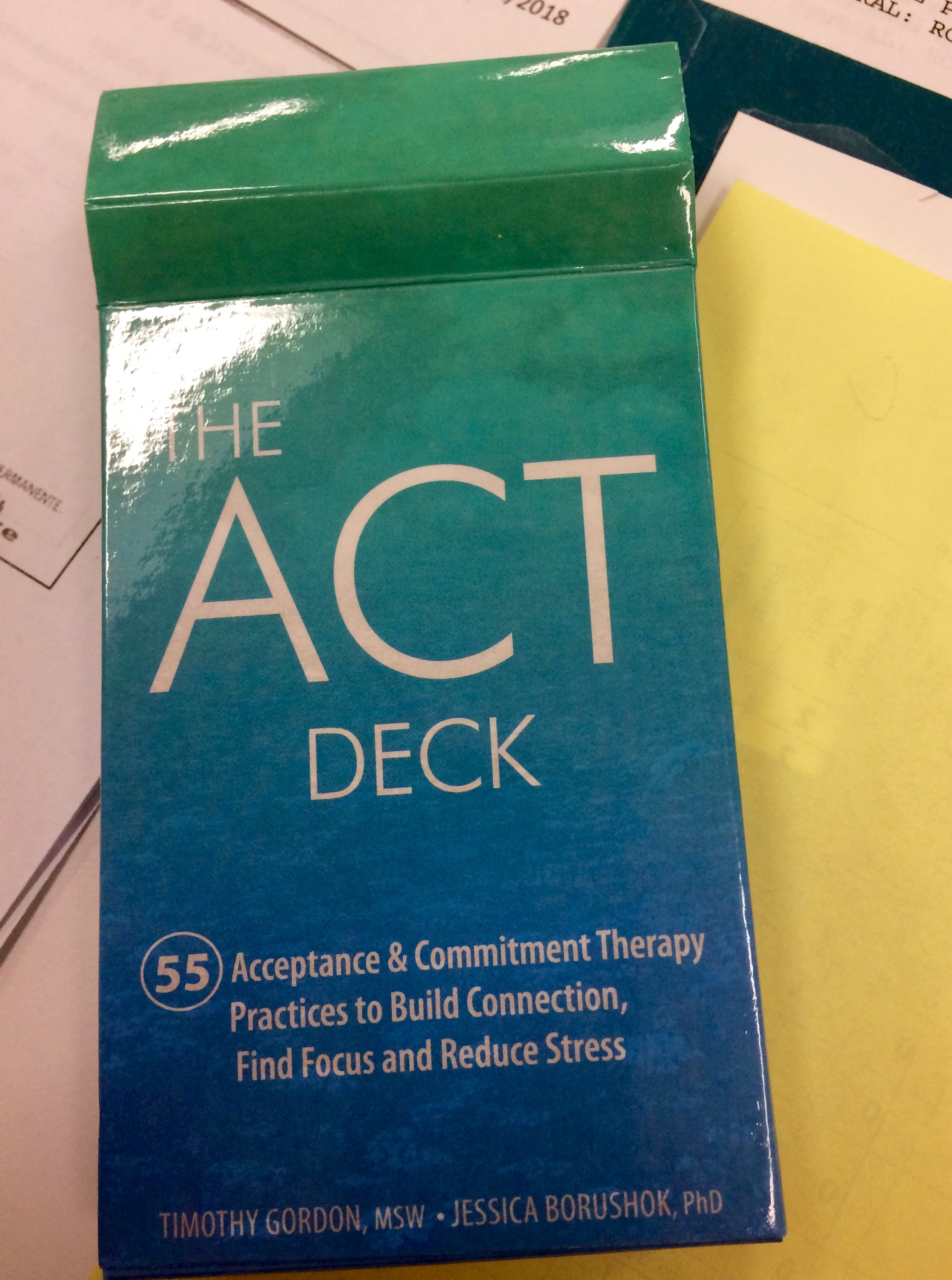 Cards used as a therapeutic activity in ACT treatment.